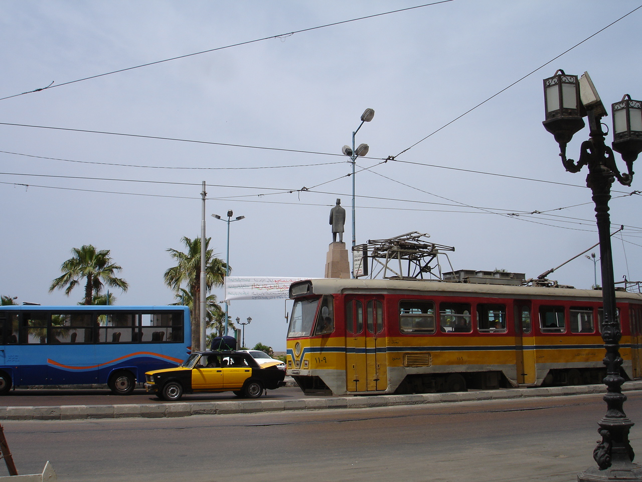 The yellow tram and a Russian Zhiguli car (Lada) passing through Saad Zaghloul's square. (Author:Amr Fayez, Valera)